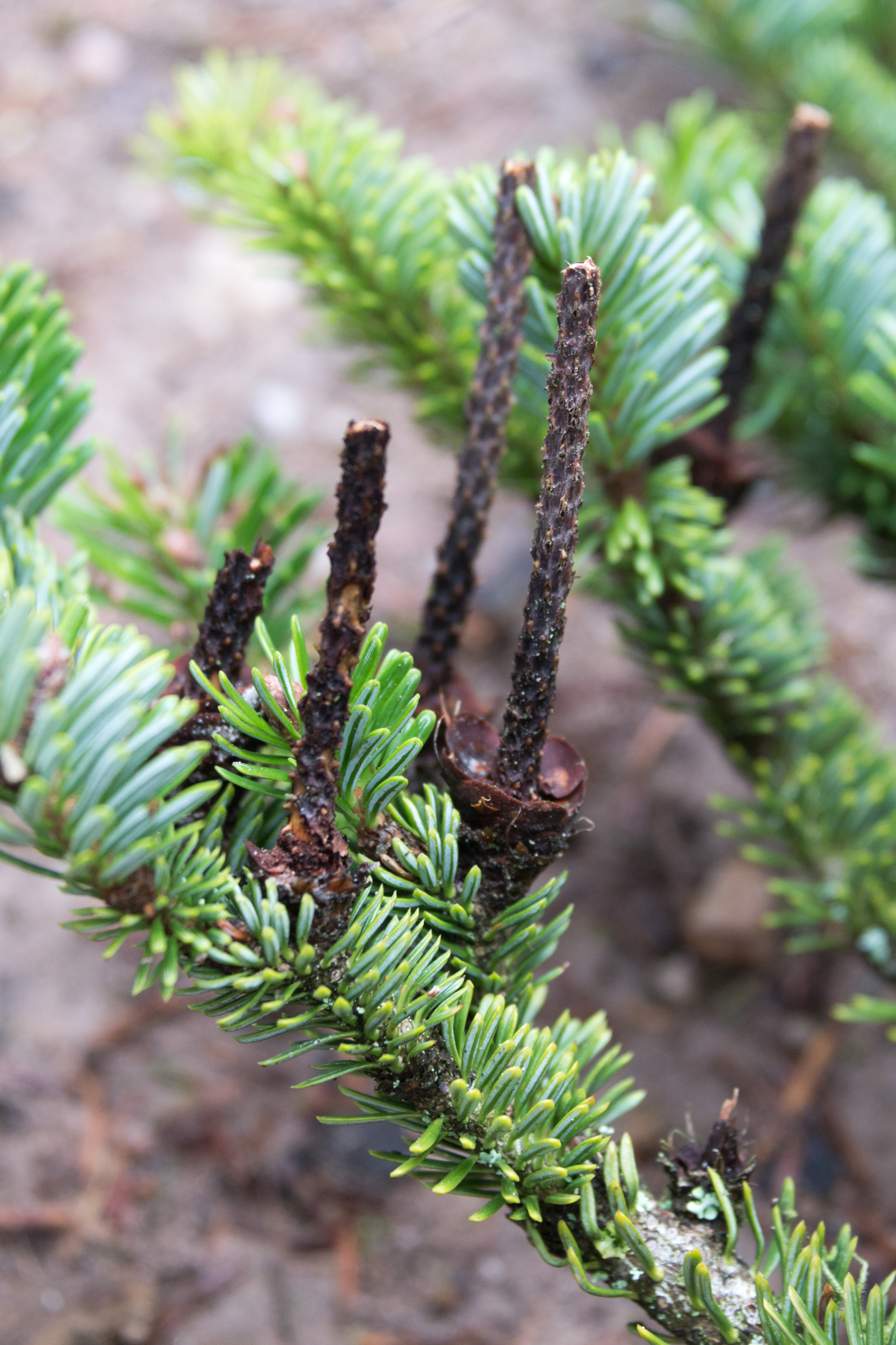 Central stem of disintegrated silver fir cones; in France, they are sometimes named “bougeoirs” (candlesticks)